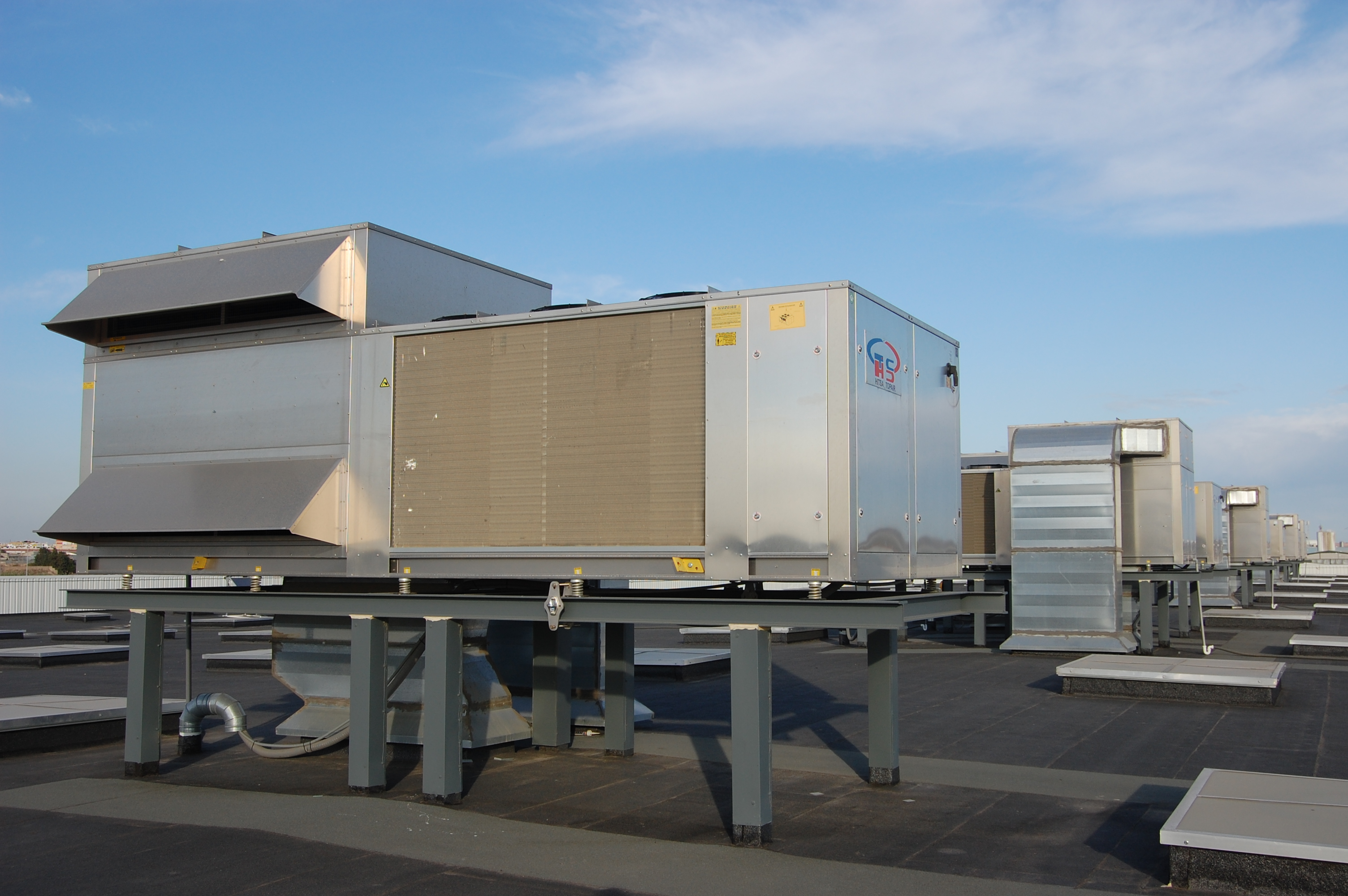 Air-Air Heat Pump Roof-Top